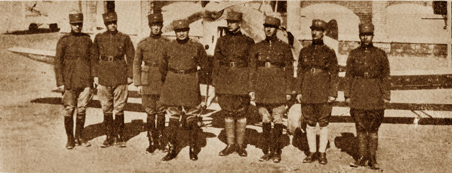 Principal officers of the Persian Air Force standing in front of the first D.H. Tiger Moth. Ahmad Khan Nakhitchevan (forth from left), commanding officer of the Air force, Capt. Azami (fifth from left), commanding officer of the flying scholl Tehran.